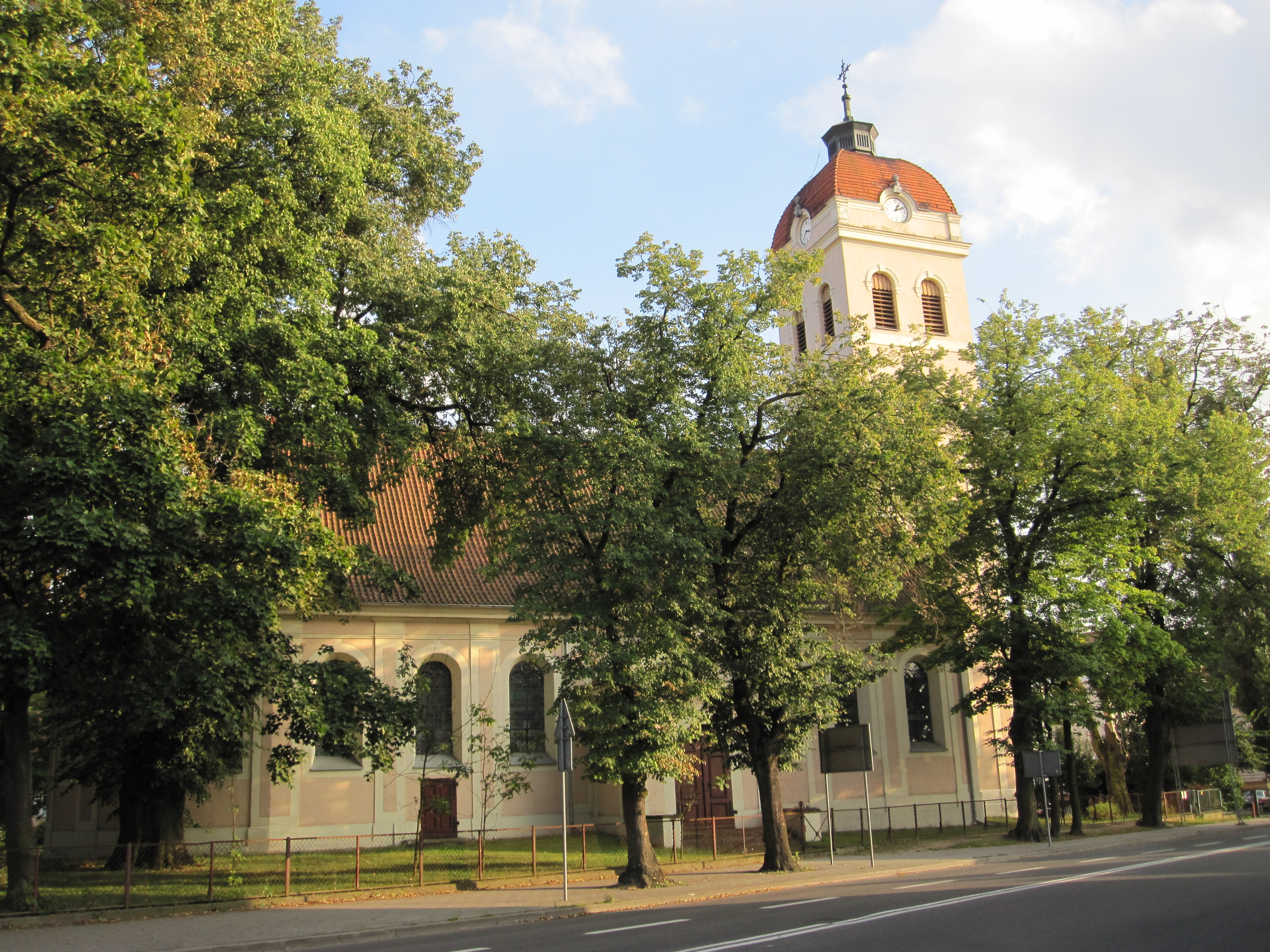 Evangelical church in Szczytno